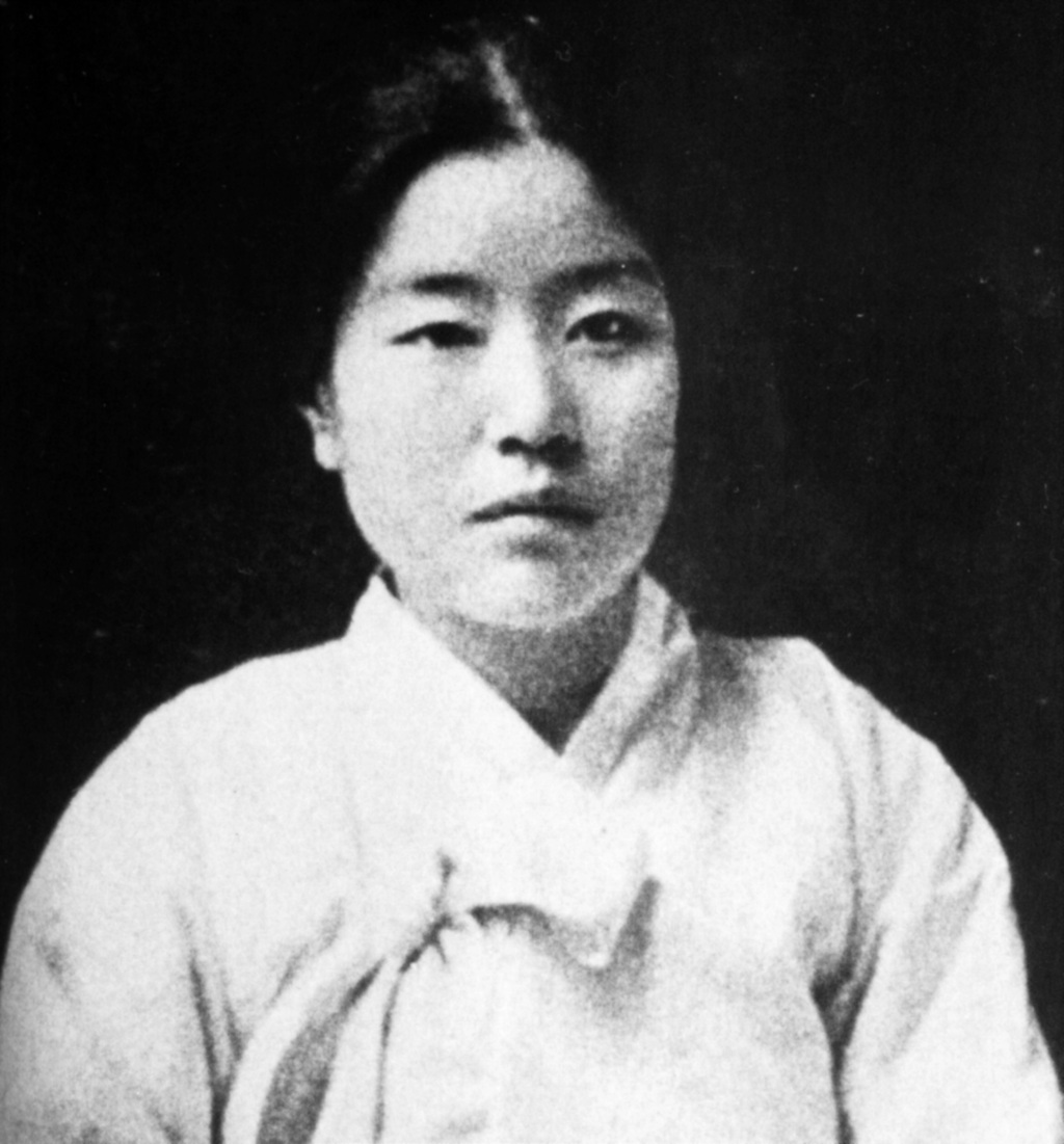 Na Hye-seok, 1915.